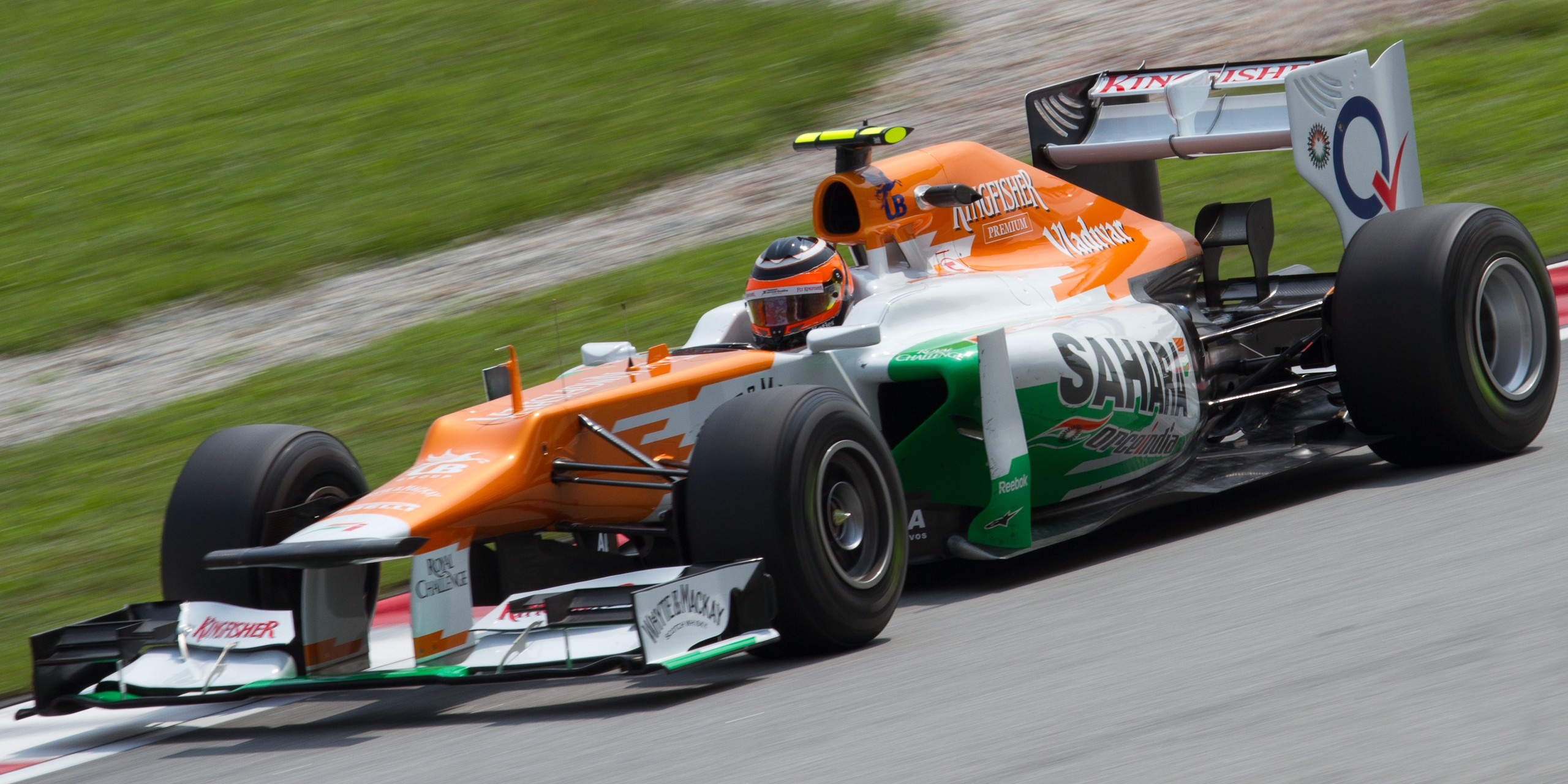 Formula One 2012 Rd.2 Malaysian GP: Nico Hülkenberg (Force India) during the first practice session on Friday.